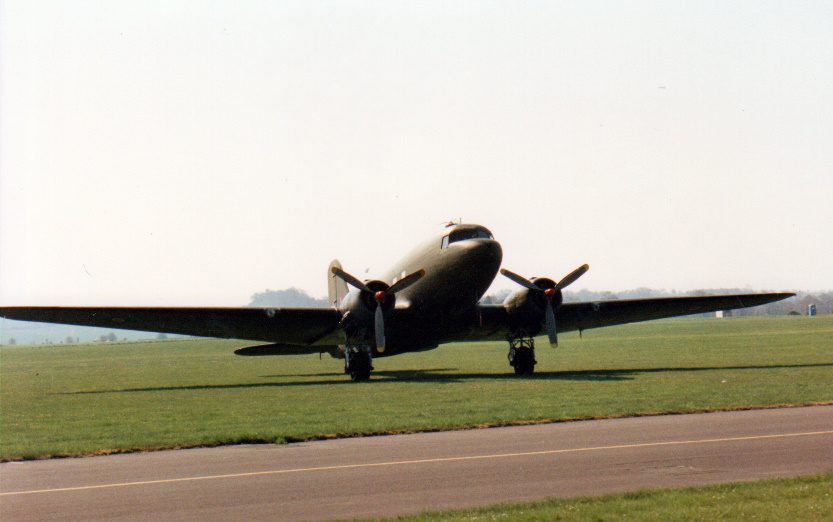 Photographed at the Spitfire 60th Anniversary Airshow, Duxford, 1996. Vintage, Veteran and Preserved Aircraft Scanned print. Photo ref; 1996/Spitfire 60th-Duxford/008